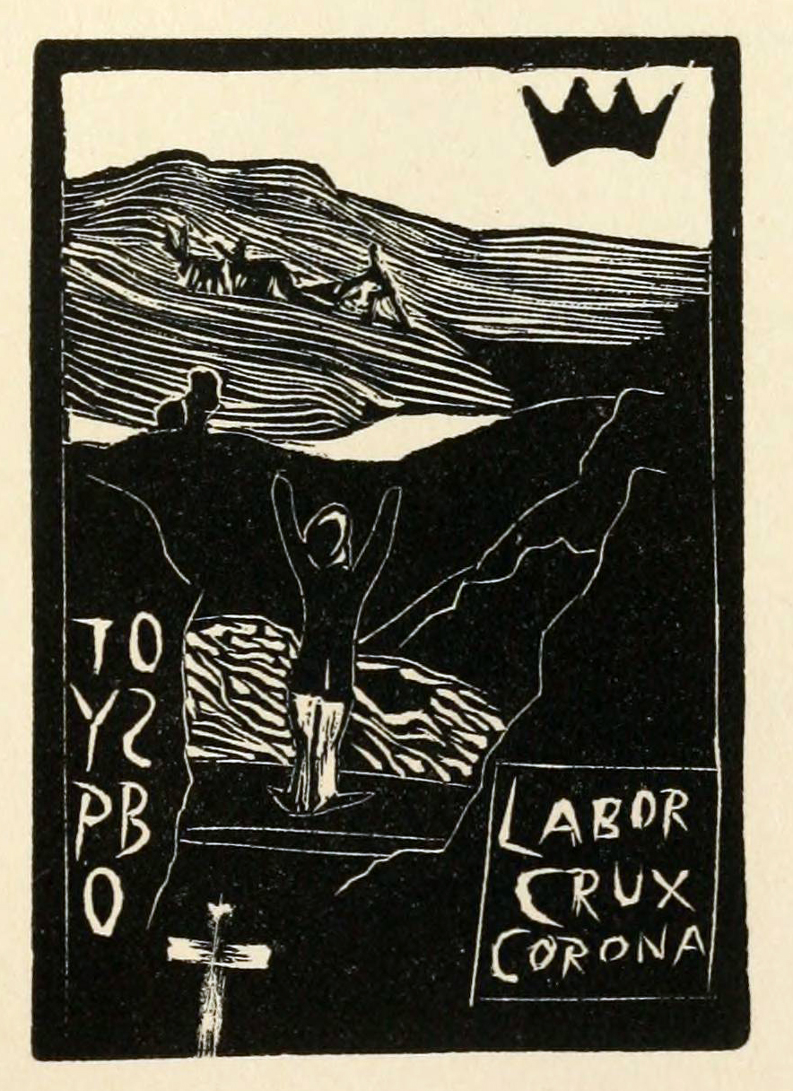 Illustration from the 1921 edition of Moral Emblems and Other Poems. This woodcut was made by Stevenson in 1881 during his stay in Davos, in Switzerland, with his wife Fanny and her twelve years old son Lloyd Osbourne, to illustrate Moral Emblems. Ninety copies were printed by Lloyd Osbourne on a toy printing press and sold at six pence each.